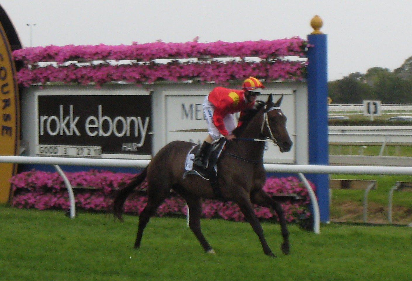 Typhoon Tracy starts at Futurity Stakes and won the race